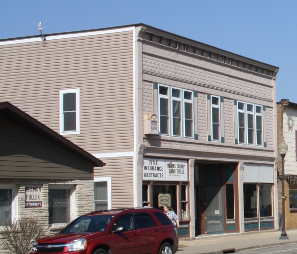 The Gunning–Purves Building in Friendship, Wisconsin. It was listed on the National Register of Historic Places in 2015.